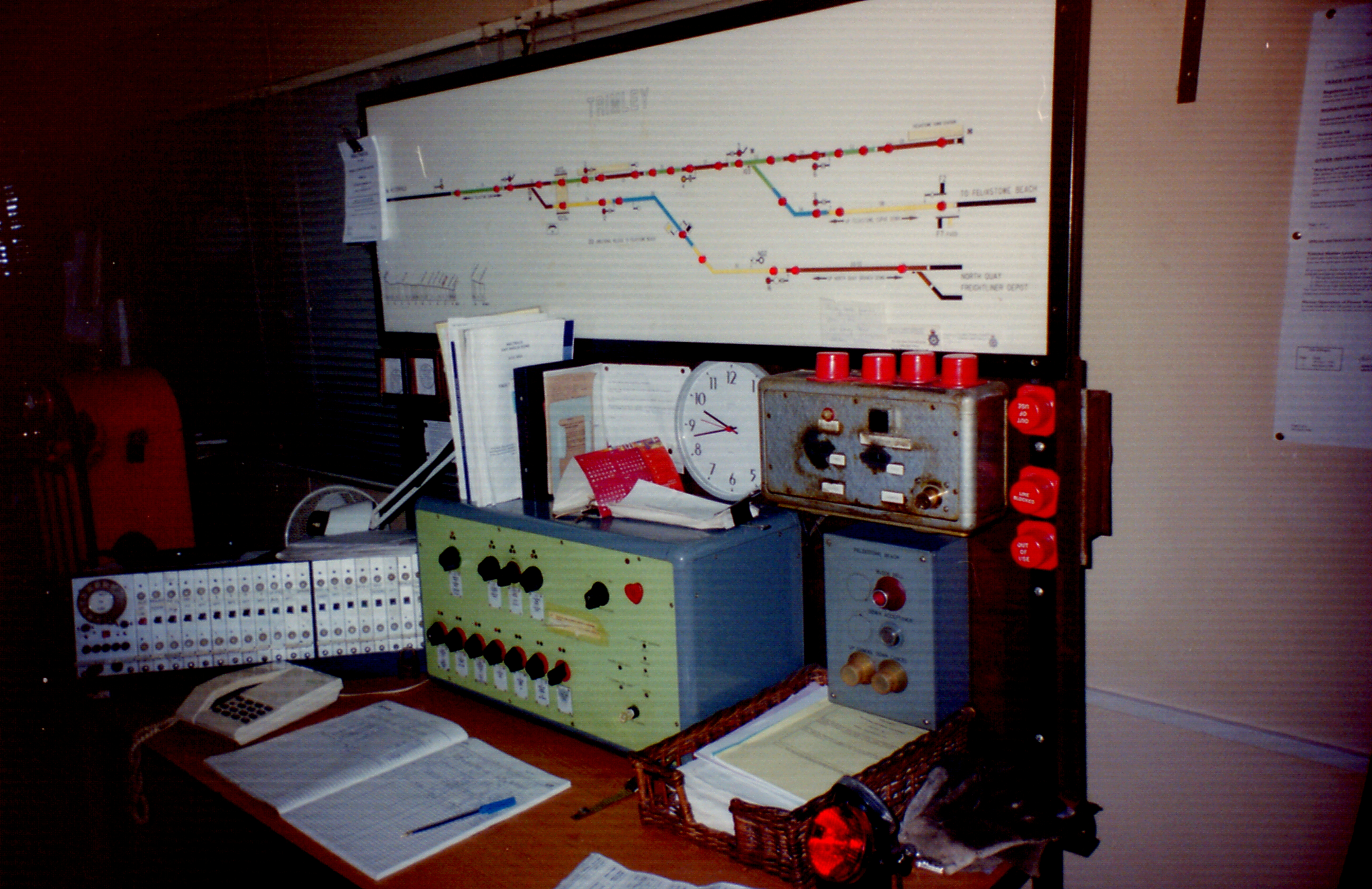 Interior of the 1988 Trimley Junction Signal box. This Signal box replaced the Original 1891 G.E.R. Installation on the up platform when the new line to the North Rail Terminal in Felixstowe Dock was installed.